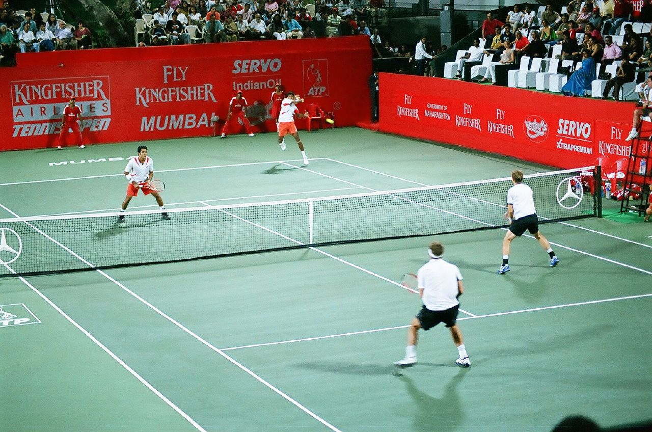 Bopanna, returning Lindstedt's serve during the Kingfisher Open ATP Tennis tournament at Cricket Club of India's (CCI) Tennis lawns in Mumbai